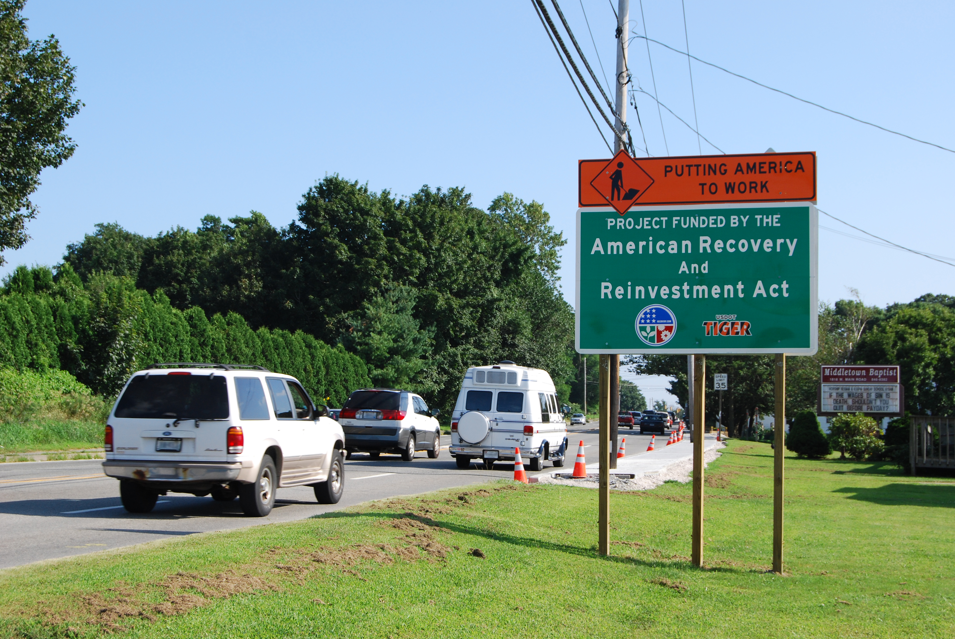 Installation of a sidewalk in Middletown, Rhode Island, United States, as part of the American Recovery and Reinvestment Act of 2009